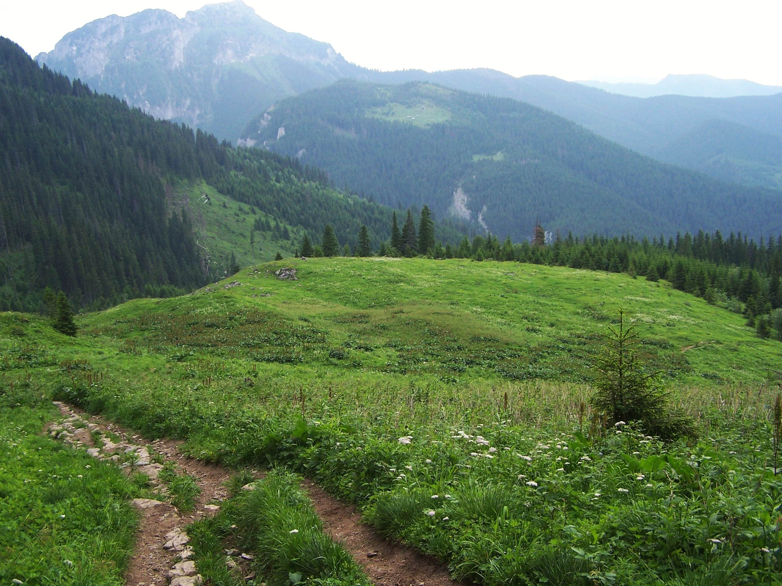 Polana Upłaz (West Tatra Mountains)